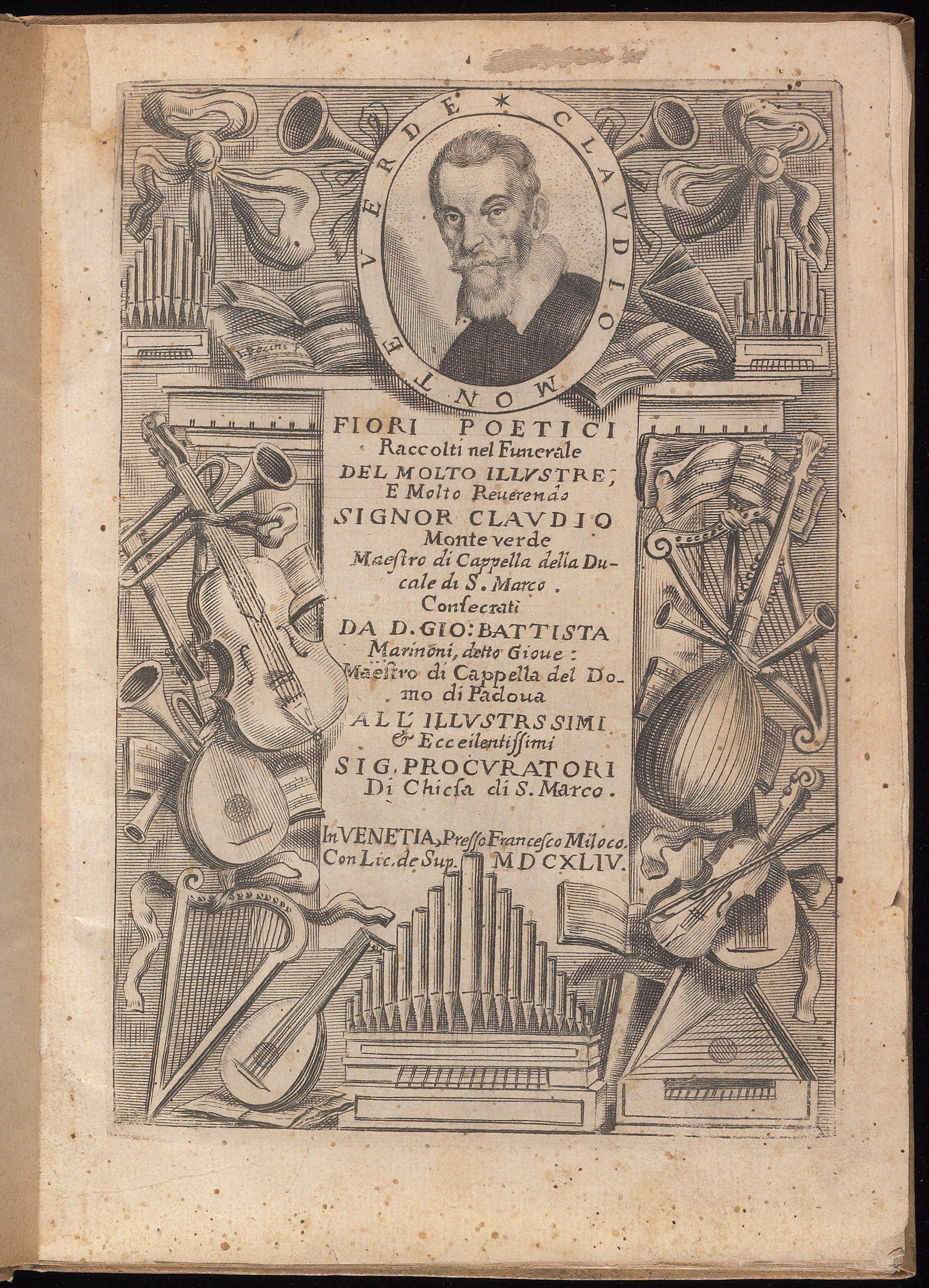 Title page of Fiori poetici, a book of commemorative poems for the funeral of Claudio Monteverdi, with the only certain portrait image of the composer